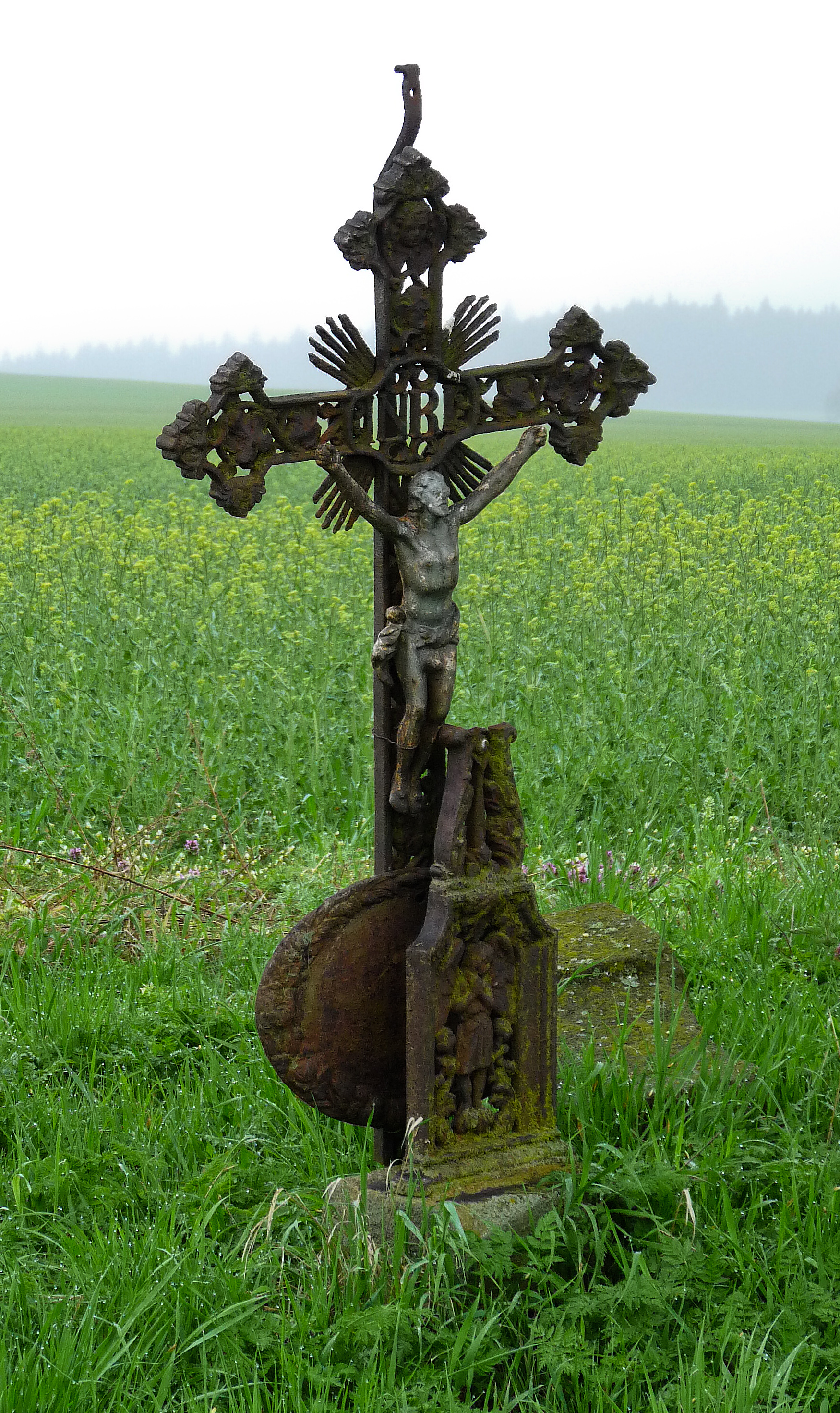 Cross at Hlasivo, Tábor district, Czech Republic